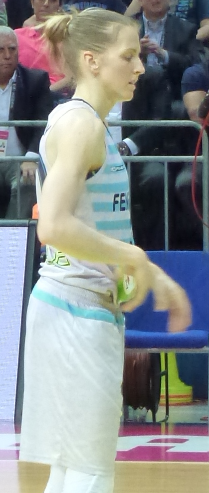 Fenerbahçe Women's Basketball - Nadezhda Orenburg 2015-16 EuroLeague Women semi final on 15 April 2016 in Ülker Sports Arena